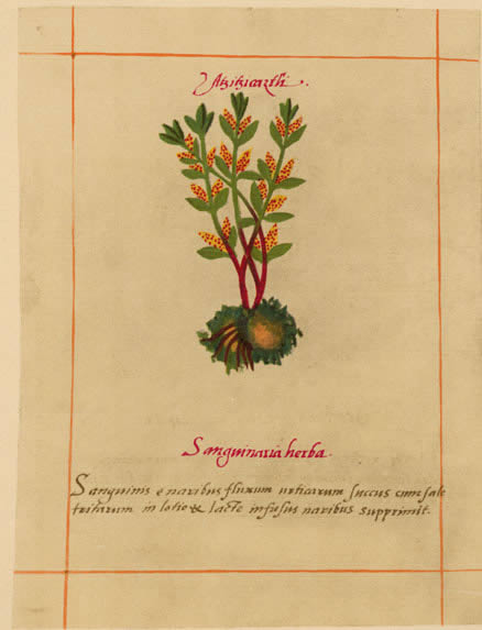 A page of the Libellus de Medicinalibus Indorum Herbis, an Aztec herbal composed in 1552 by Martín de la Cruz and translated into Latin by Juan Badianus.